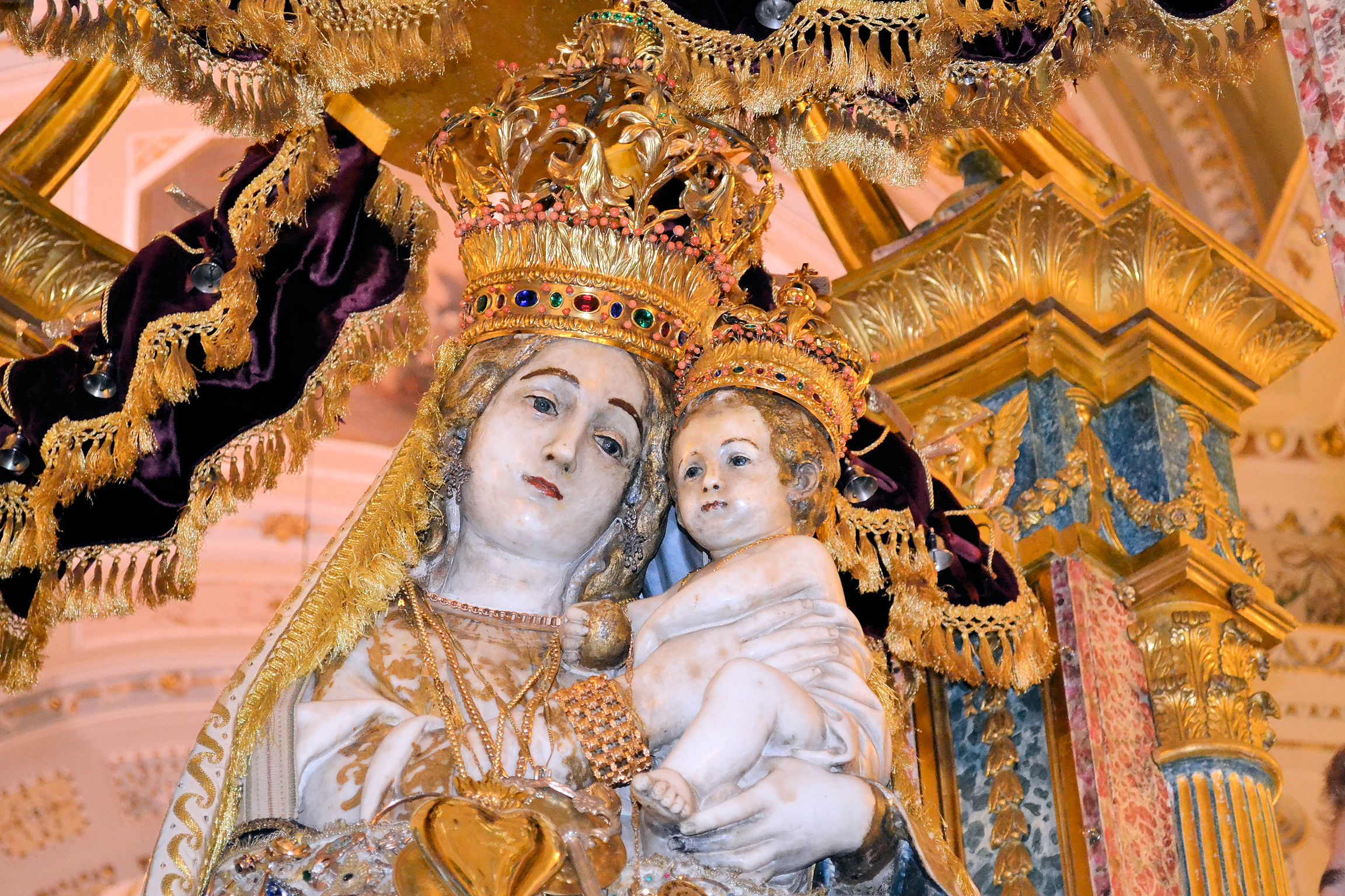 The statue od Holy Mary of Udienza, of Sambuca di Sicilia, in province of Agrigento